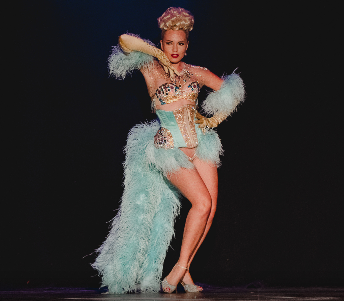 Italian Burlesque performer